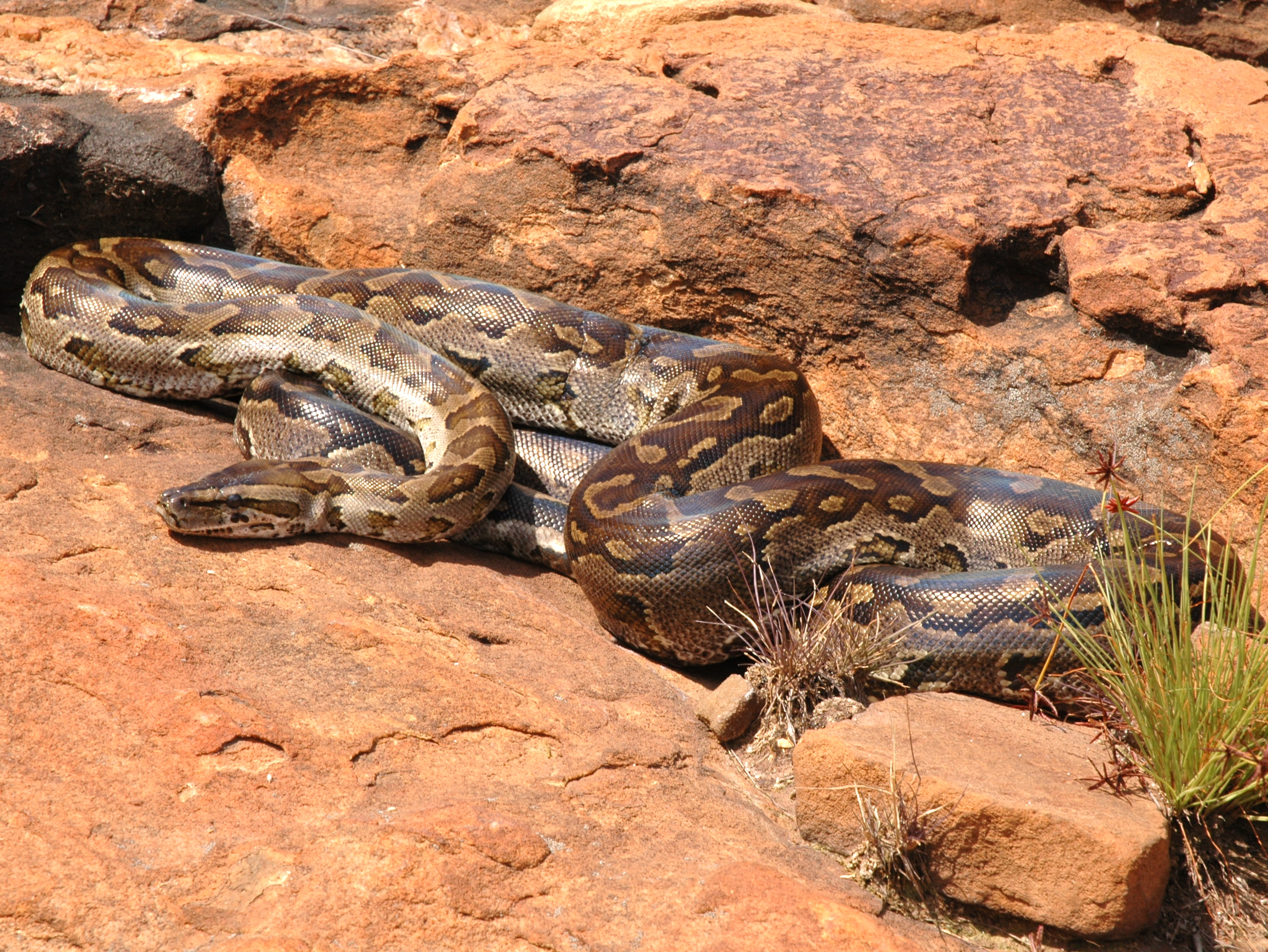 Southern African Python (Python natalensis). This snake was photographed in its native range.